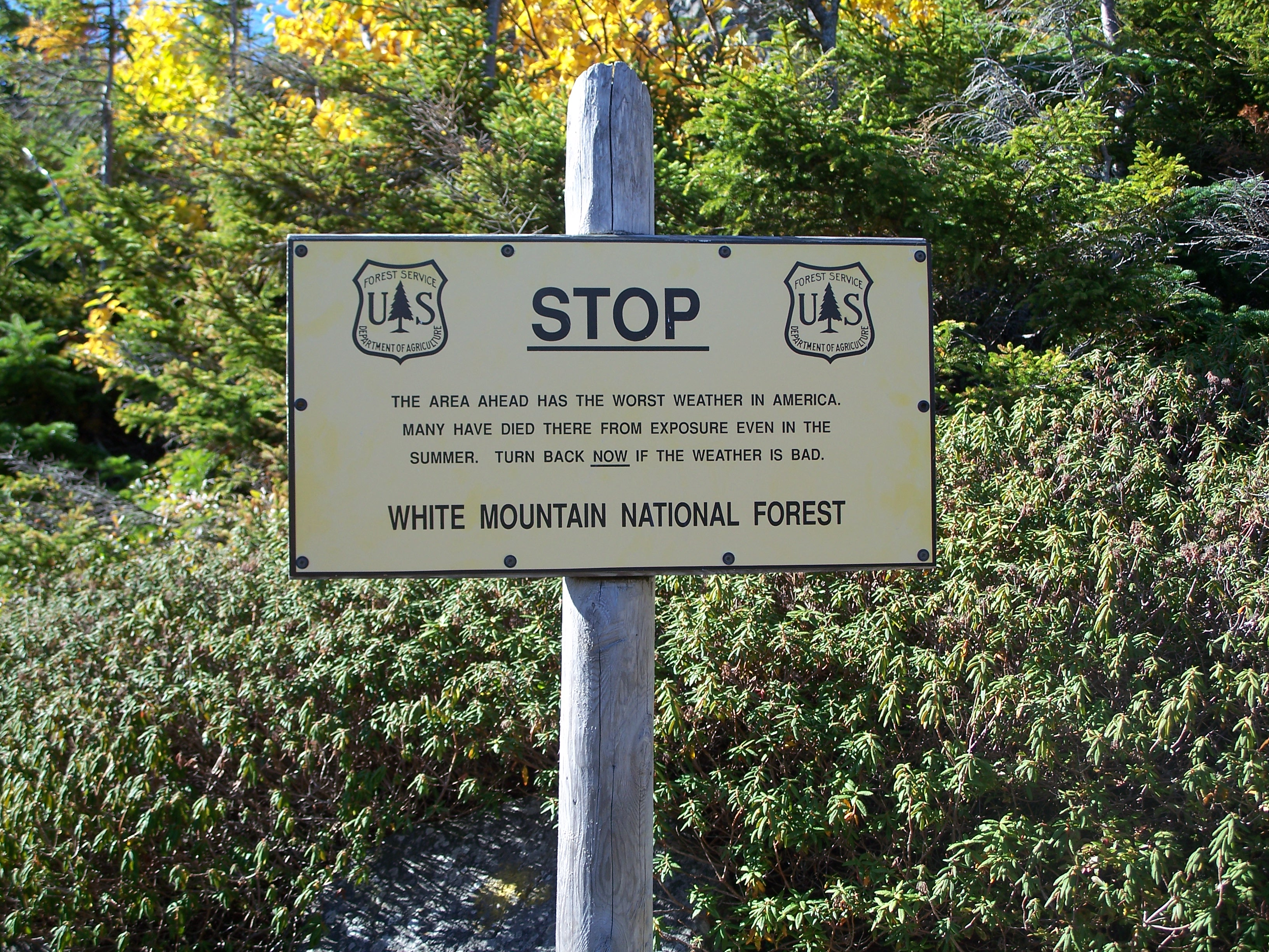 A sign warns of dangerous weather conditions above treeline in New Hampshire's White Mountains.